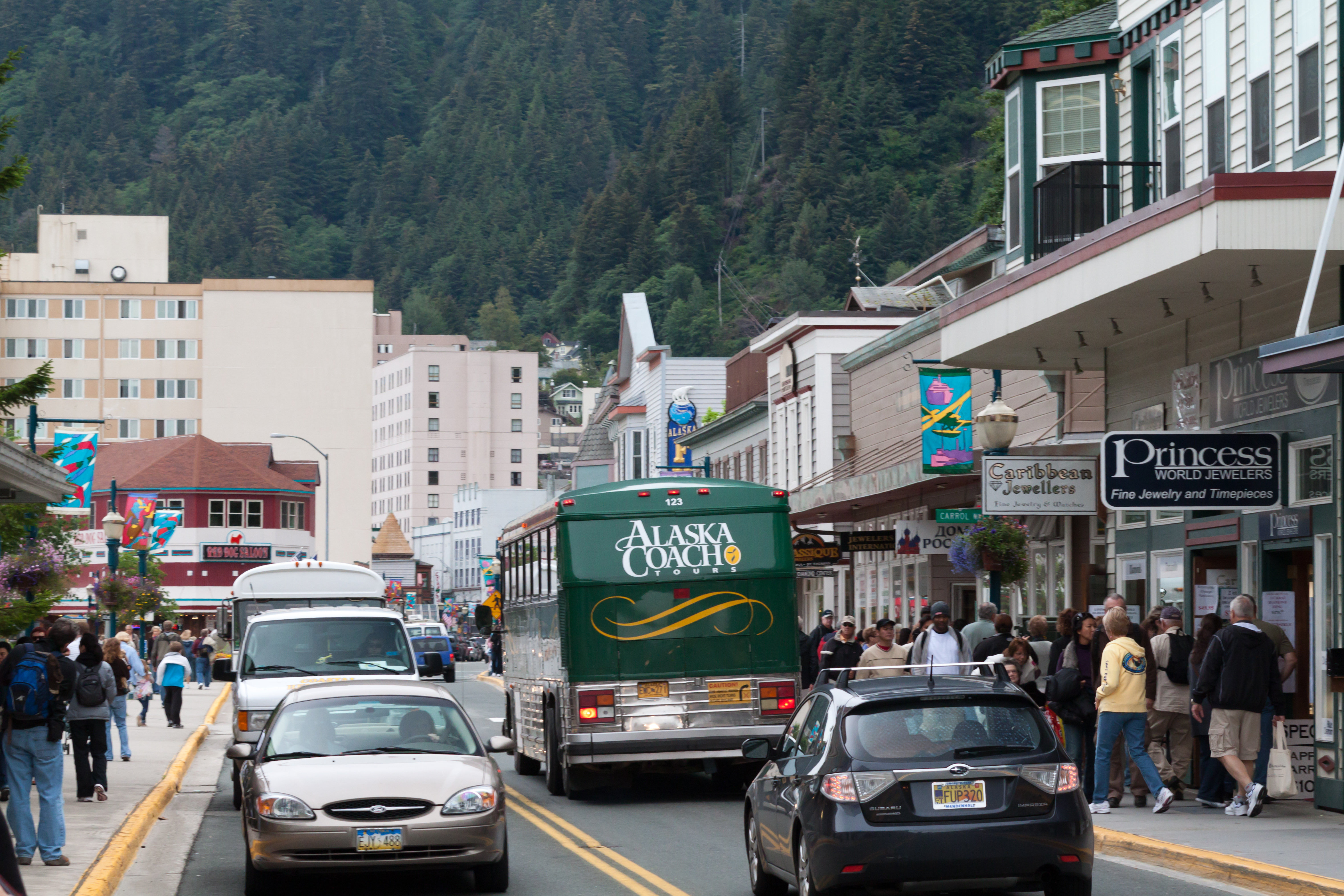 Street traffic in Juneau